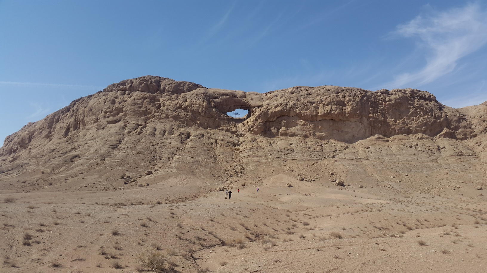 Ferdows Hole in the Rock, near Ferdows, Iran.